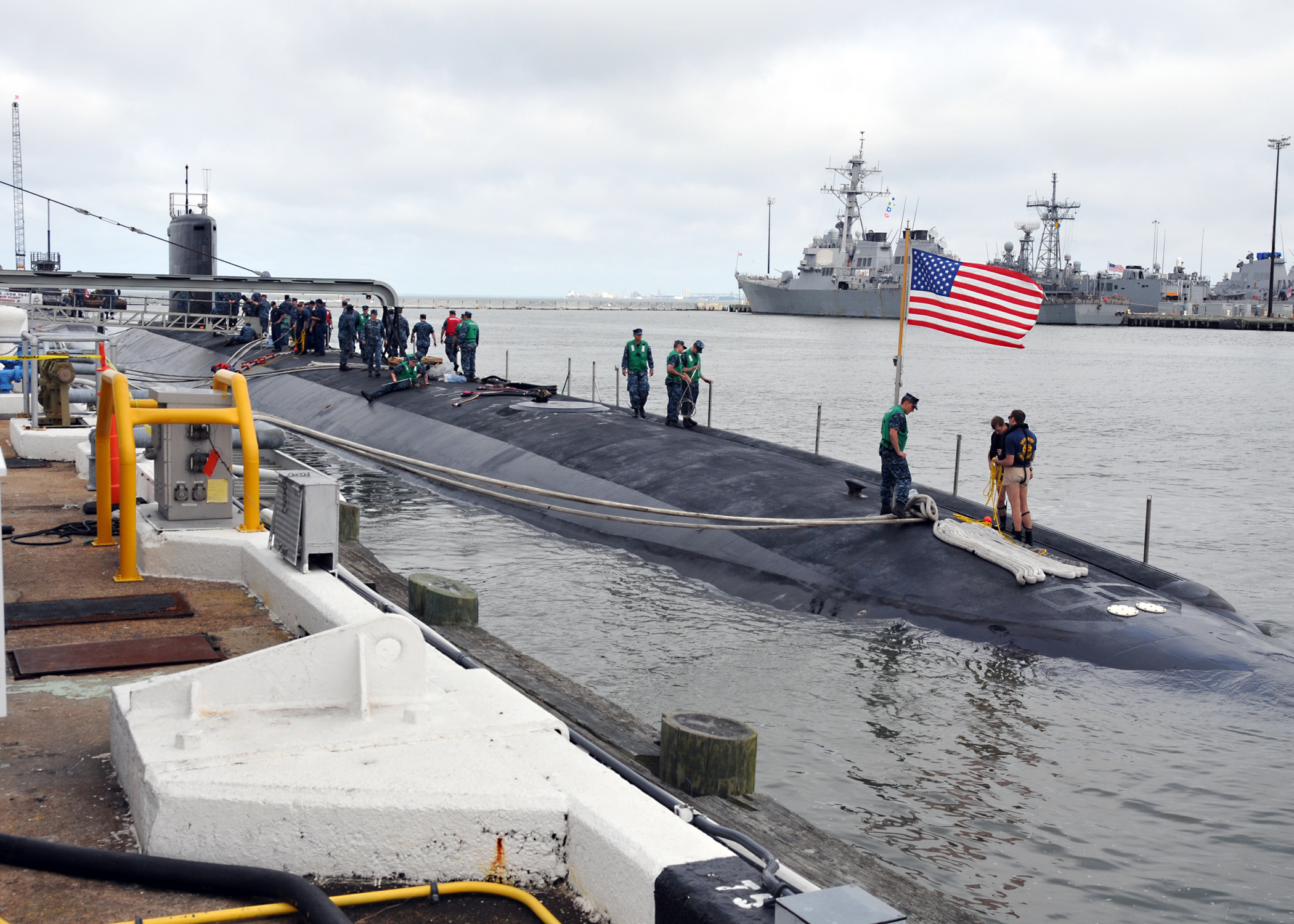 NORFOLK (June 24, 2013) The Virginia-class attack submarine Pre-Commissioning Unit (PCU) Minnesota (SSN 783) pulls pierside at Naval Station Norfolk from a scheduled underway. Minnesota, the Navy's 10th Virginia-class submarine, was delivered to the Navy June 6, 11 months ahead of schedule. Construction of the Minnesota by Huntington Ingalls Industries at the company's Newport News, Va., shipbuilding division began in Feb. 2008. The boat was christened on Oct. 27, 2012, and will be commissioned at a ceremony in Norfolk Sept. 7. (U.S. Navy photo by Mass Communication Specialist 2nd Class Alex R. Forster/Released) 130624-N-WO496-002 Join the conversation navylive.dodlive.mil